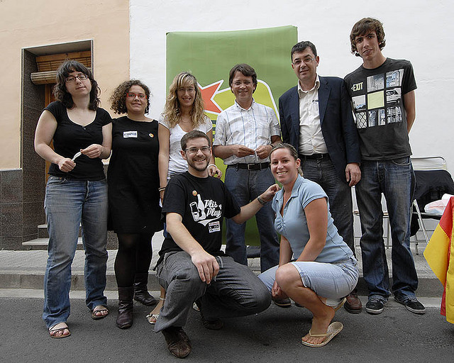 Enric Morera, Josep Miquel Moya and the people of the Valencian National Bloc in Daimús.